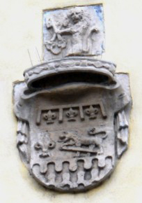 Stemma dei Manassei (altorilievo del XVI secolo, palazzo Manassei, Terni).